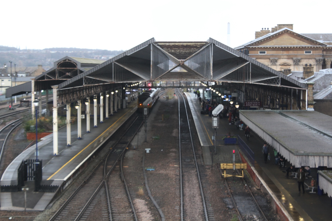 Looking north through the train shed at Huddersfield station in West Yorkshire.